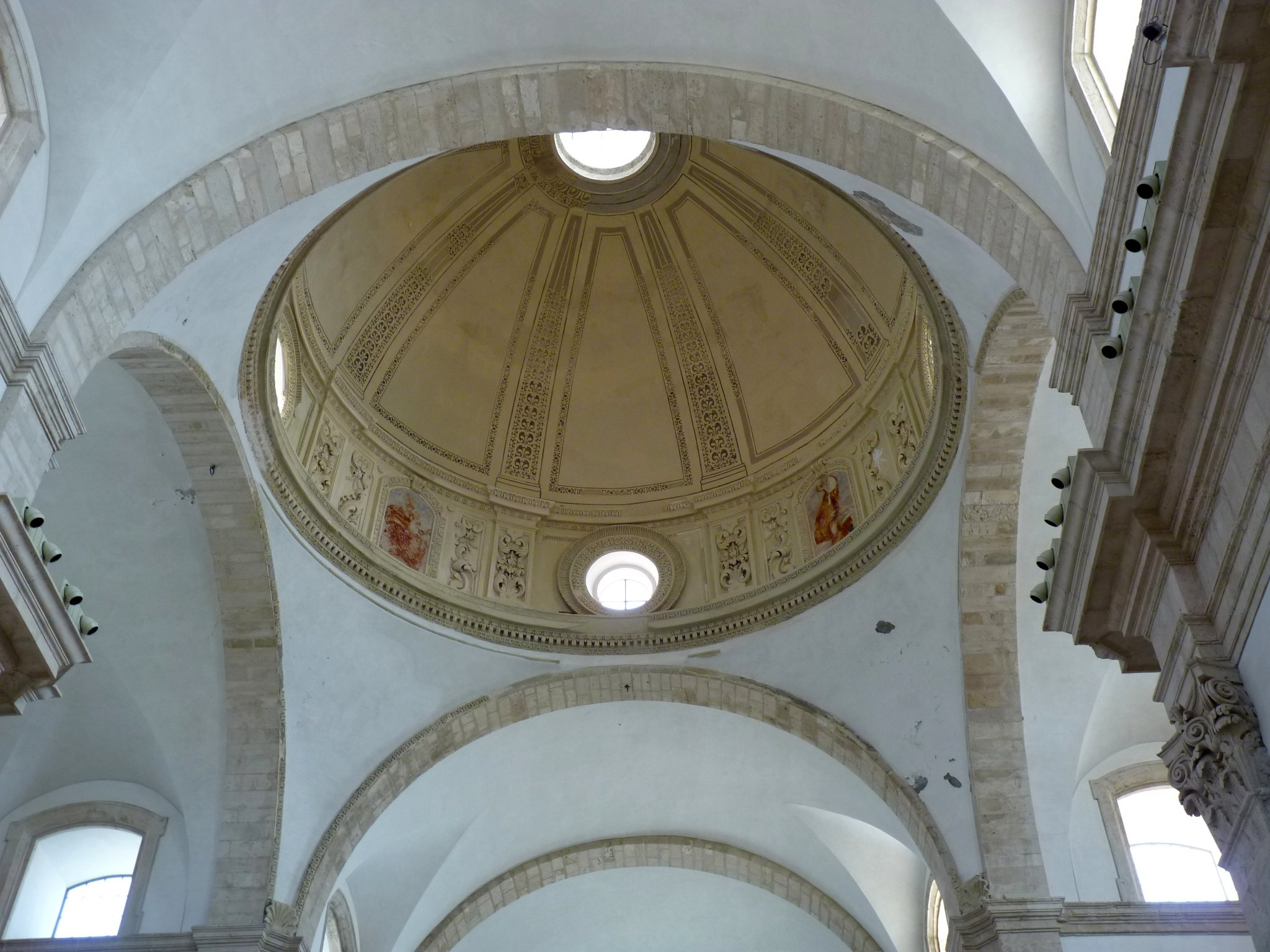 Situated in the Castle area